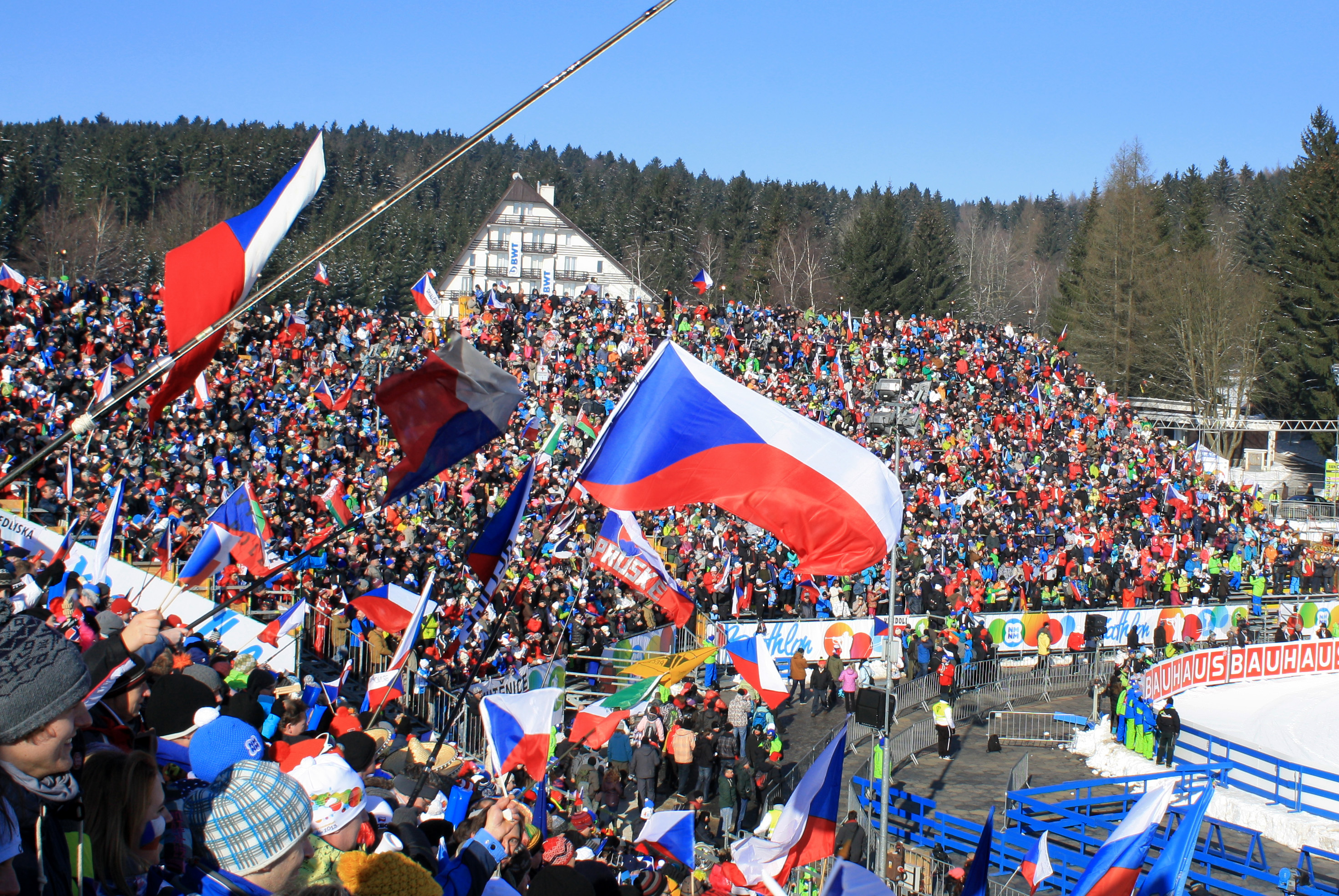 Biathlon World Cup 2015 in Nové Město, Czech Republic – arena